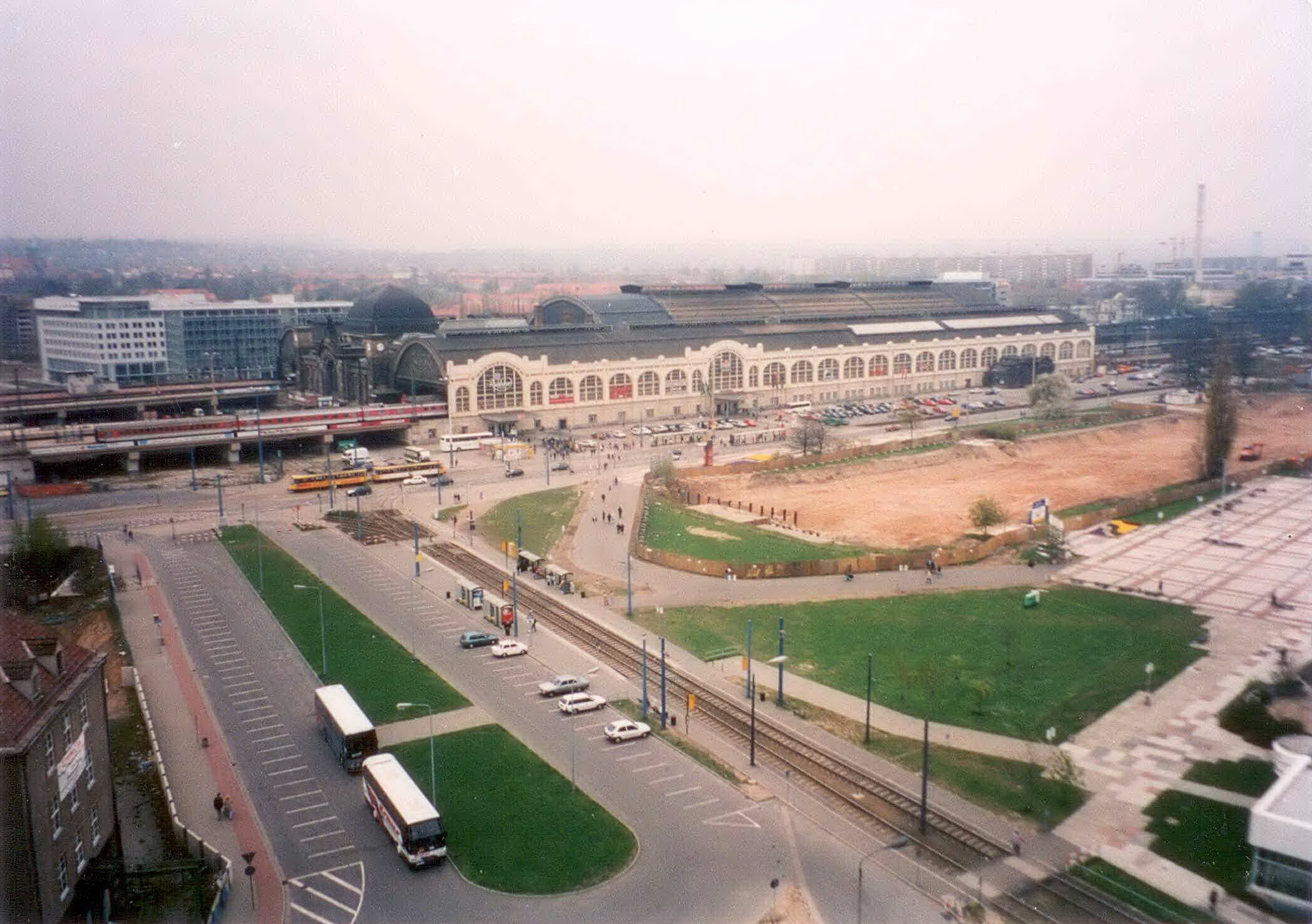 Wiener Platz and central station, Dresden, Germany, 1997